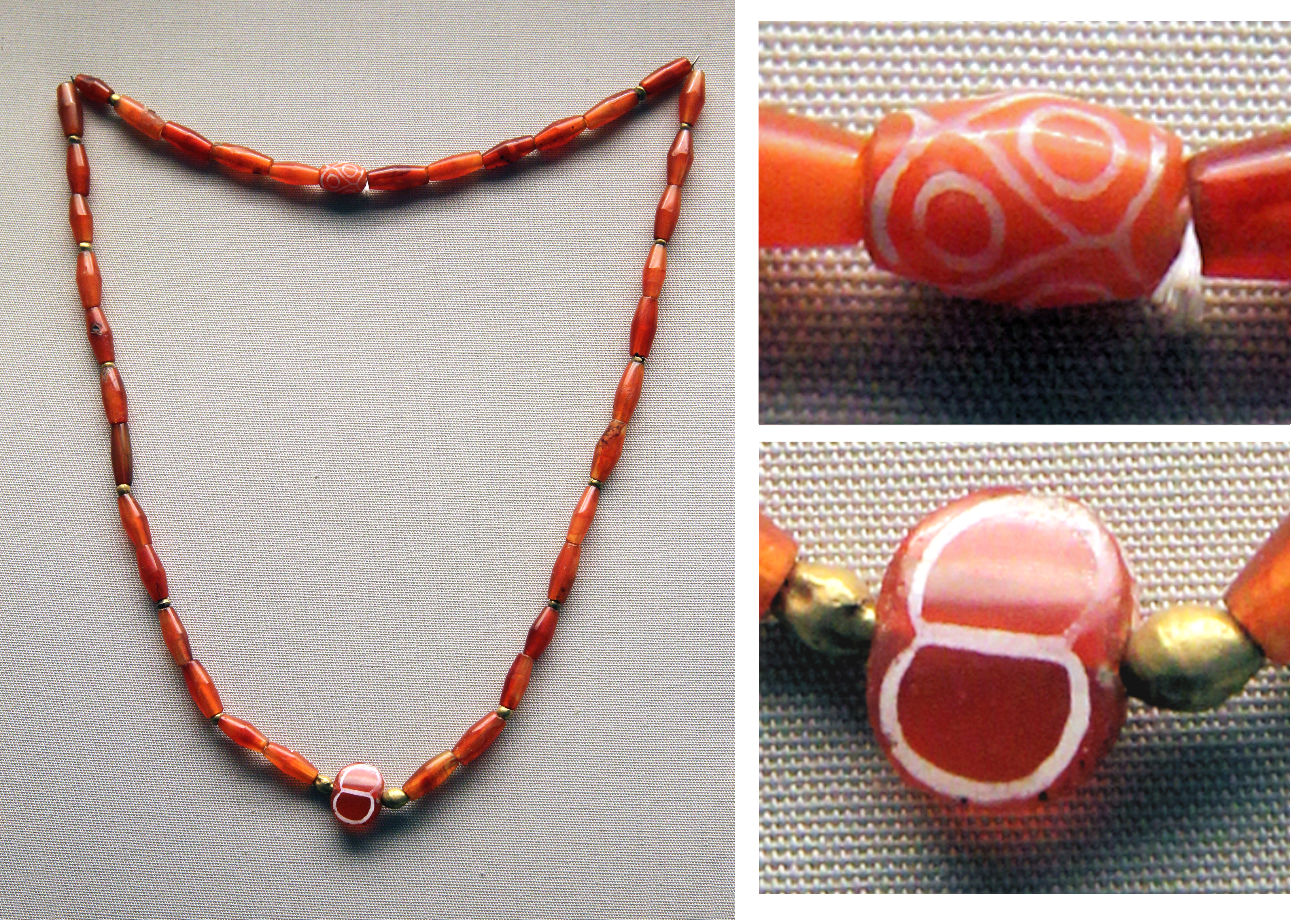 British Museum Middle East 14022019 Gold and carnelian beads 2600-2300 BC Royal cemetery of Ur tomb PG 55(composite)